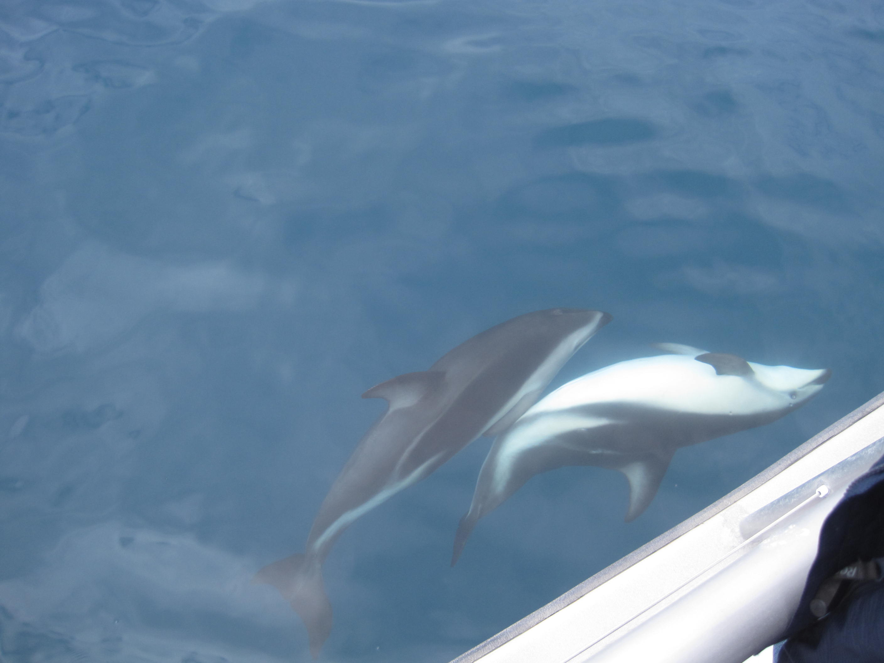 Two dusky dolphins swimming alongside boat